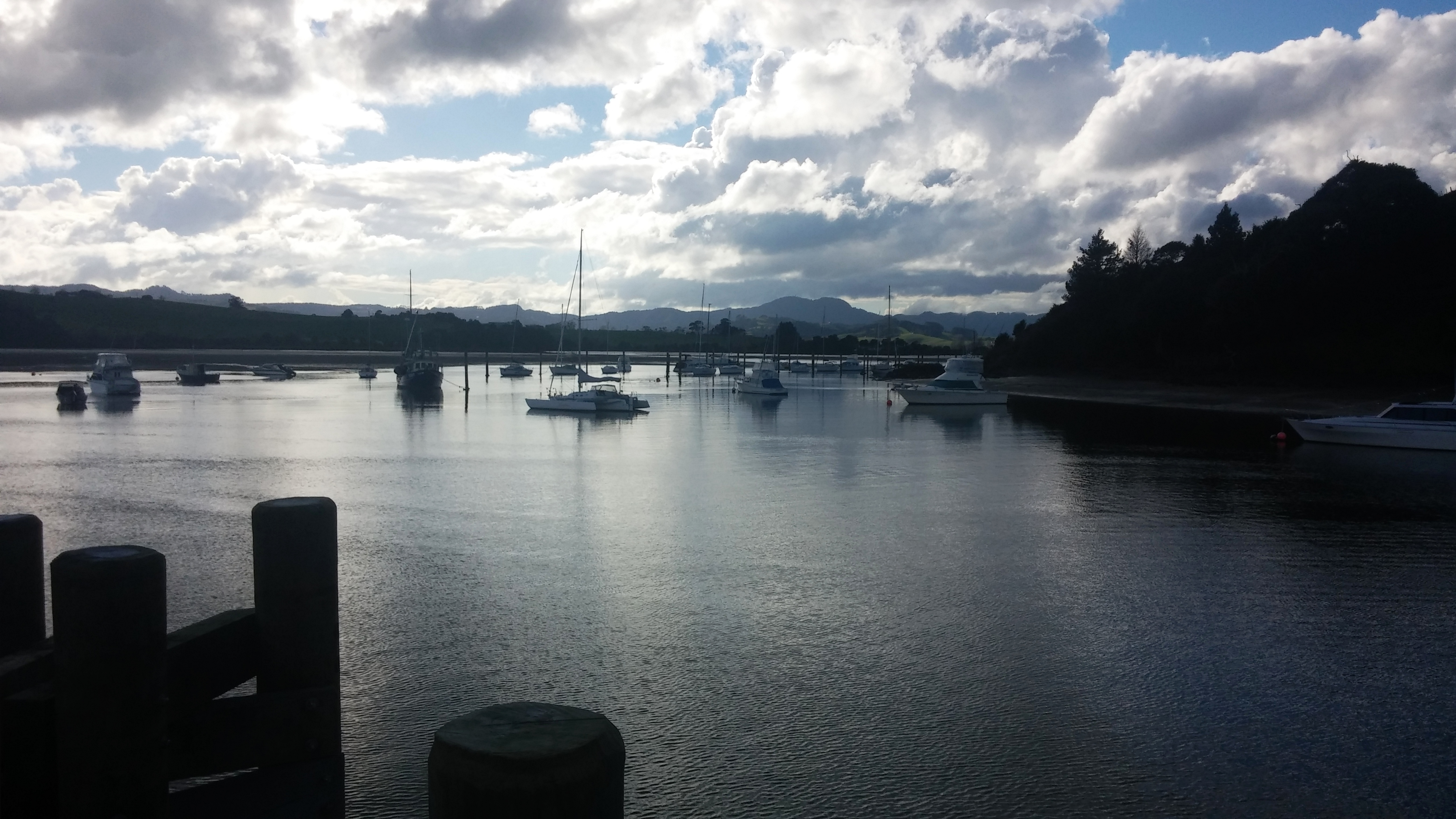 View of Kawau Bay from Sandspit Wharf, Auckland, New Zealand